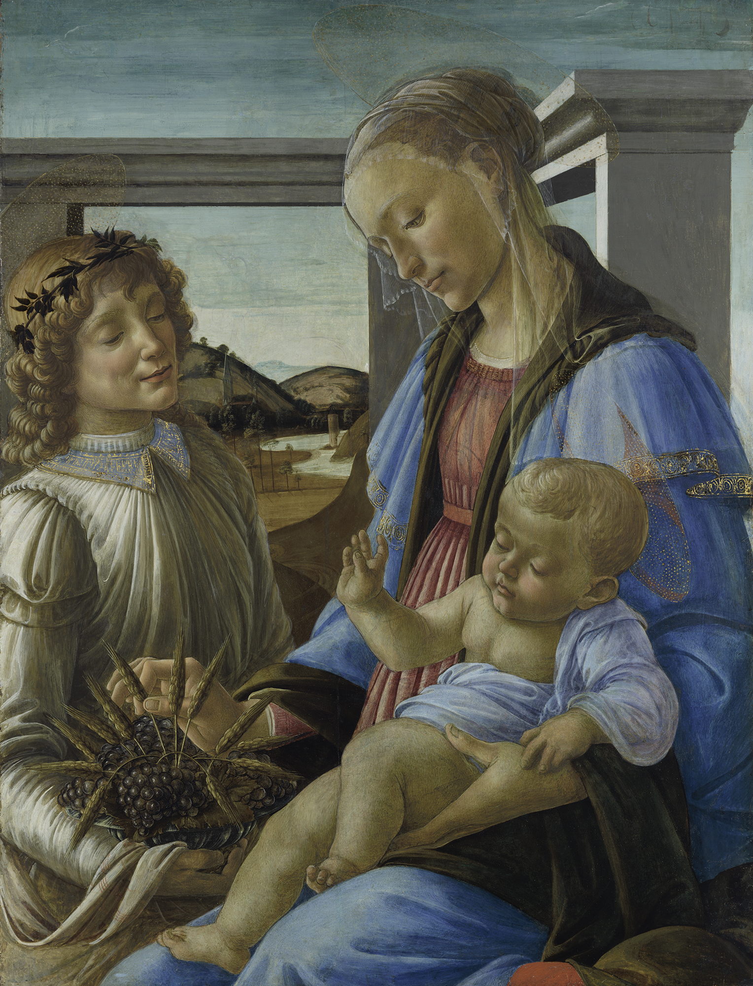 All look down at a bowl of grapes with grain, symbols Grapes and wheat, symbols of the Eucharist, and the blood and body of Christ’s sacrifice. While selecting some wheat, the accepts her child’s fate.